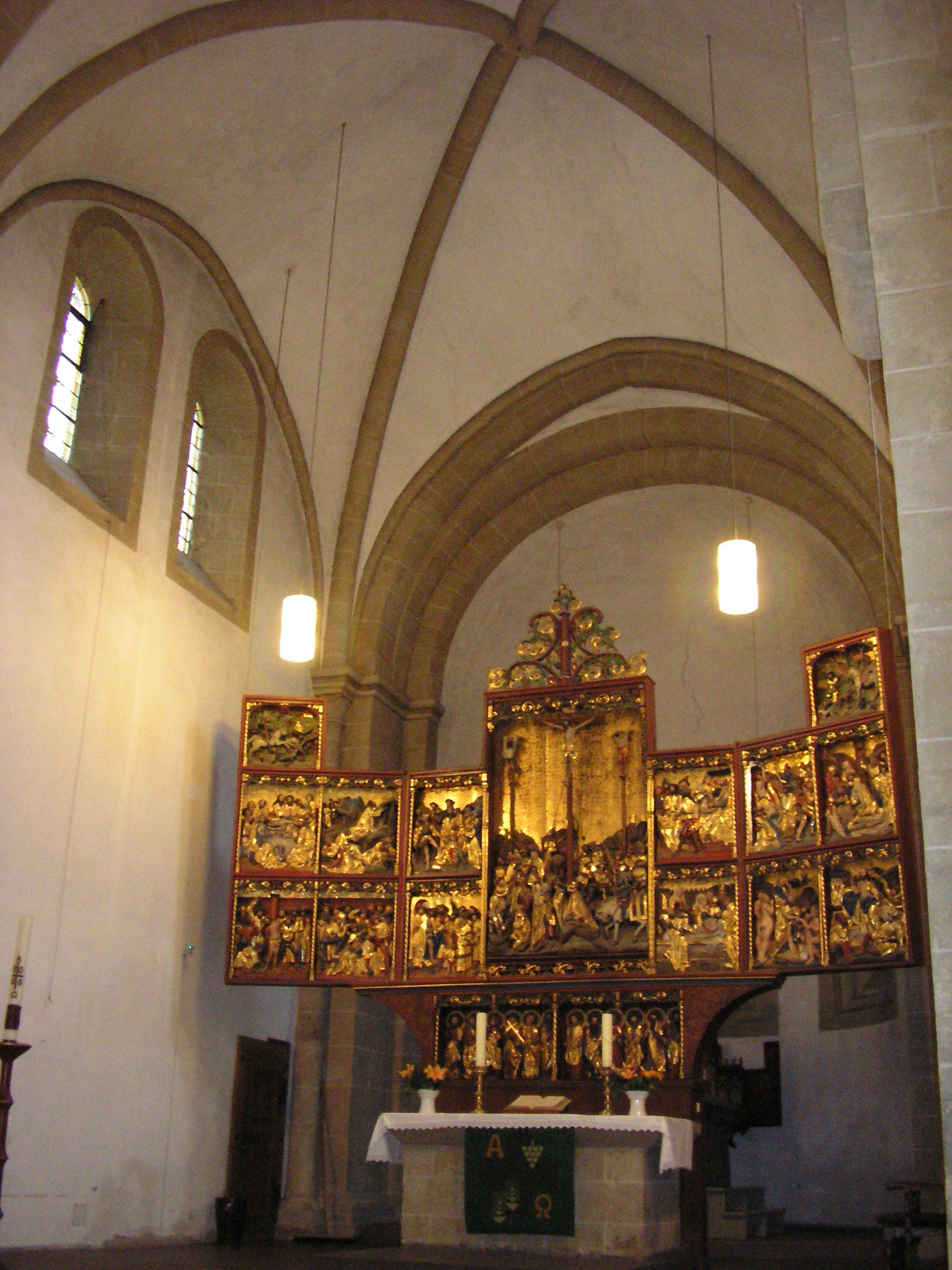 Church in town of Enger, District of Herford, North Rhine-Westphalia, Germany.